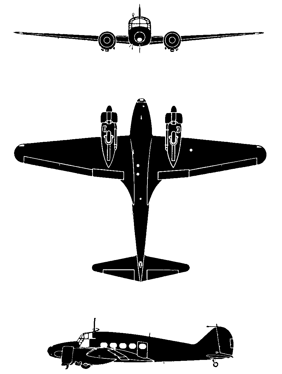 Anson T20 silhouette. The 1952 edition of the Observer's Book of Aircraft used 34 Crown Copyright silhouettes provided by the Controller of H.M. Stationery. An acknowledgements section on page 5 of the book identifies them by page. This image is one of those and since the publication date is pre-1957 is in the public domain.